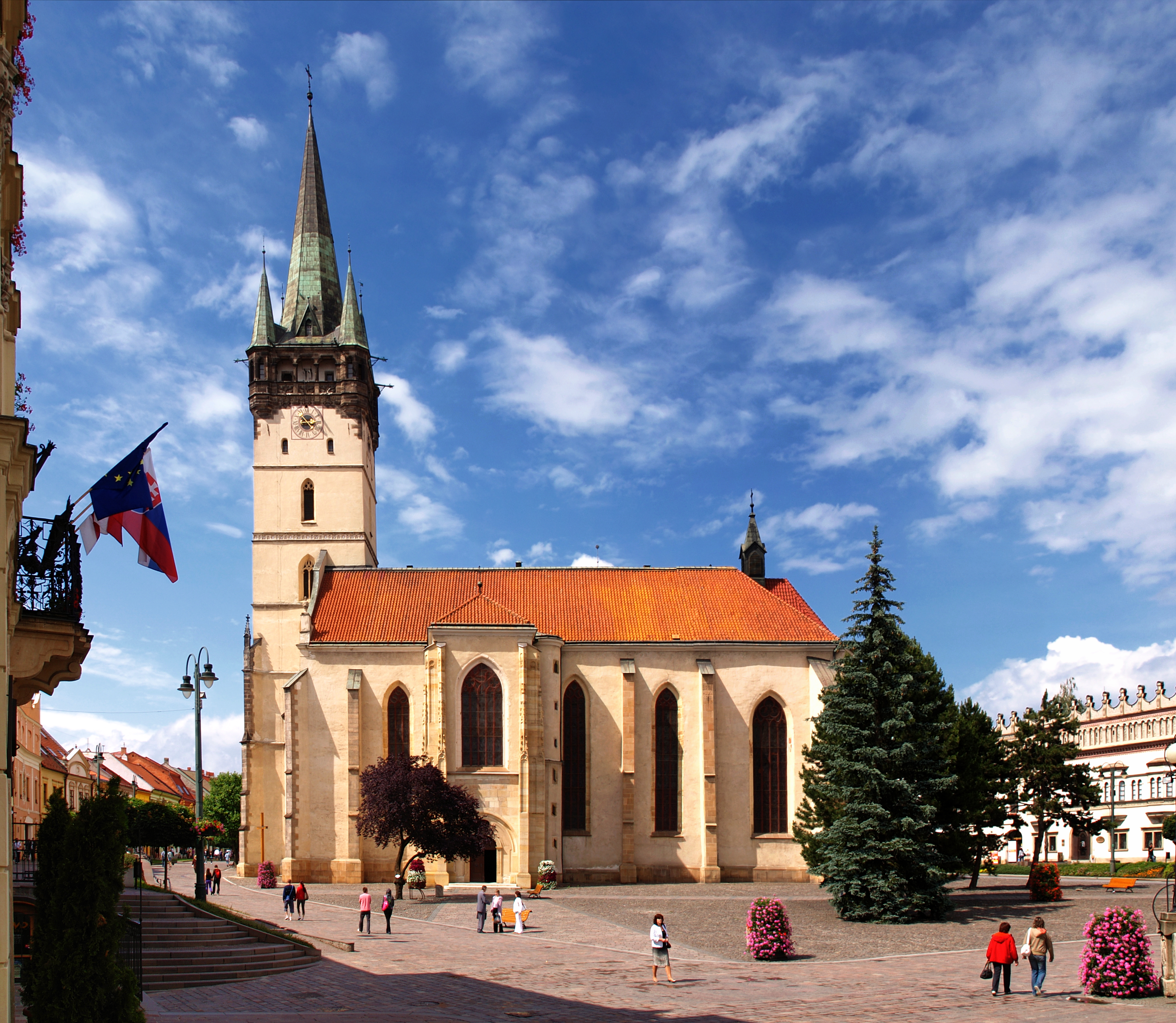 Presov (Slovakia) - Parish Church of St Nicholas